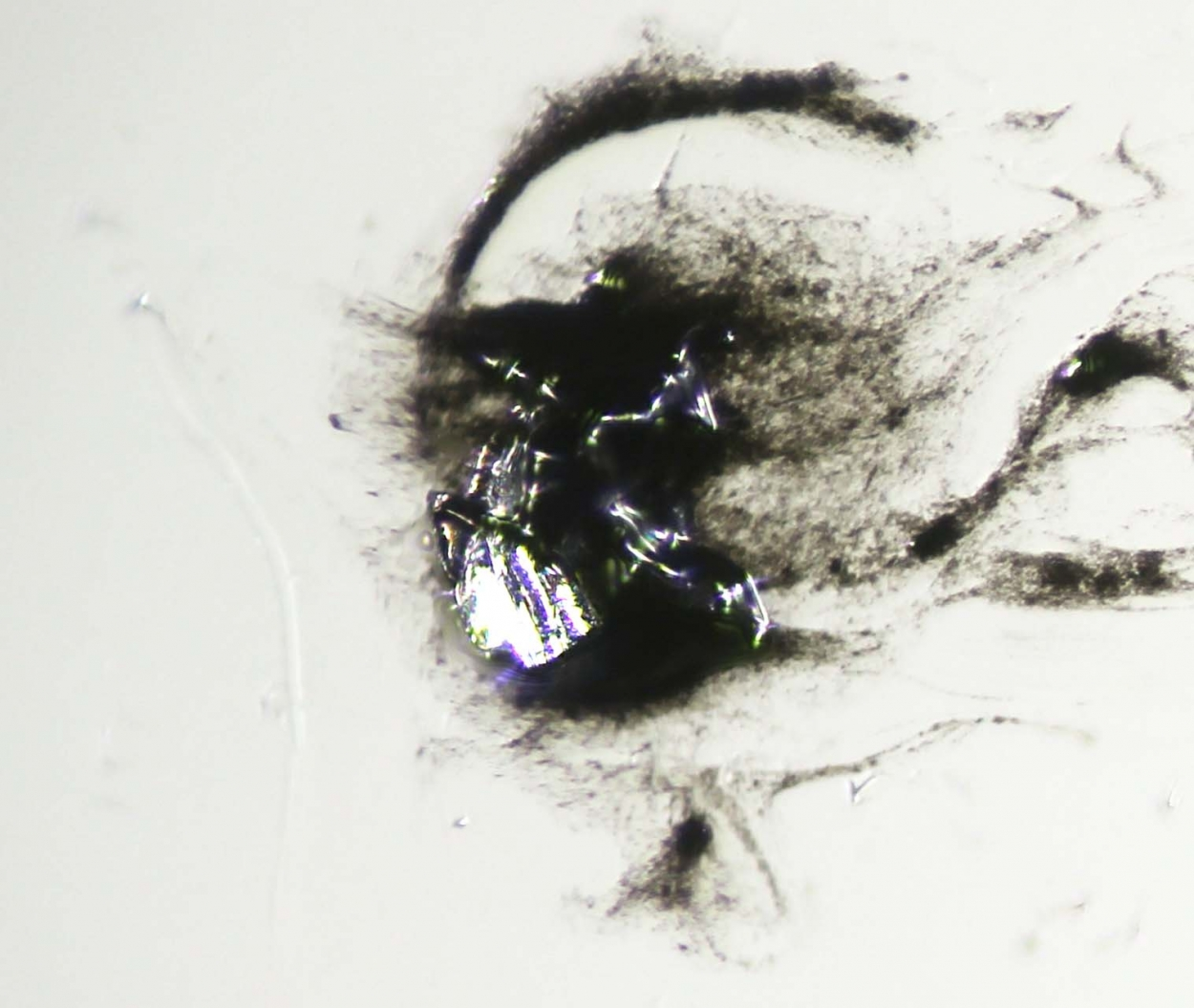 Very small isolated black crystal of the extremely rare Lengenbach mineral gabrielite (IMA 2002-053). Gabrielite is one of the rarest Lengenbach mineral species. Only very few specimens known. After the book "Faszination Lengenbach (2008)" we know that the total number of gabrielite specimens known worldwide was only 2 !! (p.188) Analyzed specimen by EDX and XRD by F.Nestola of Padua. Specimen found in 1993. Official L-Number is L25259. Ex-Dr.T.Raber collection.